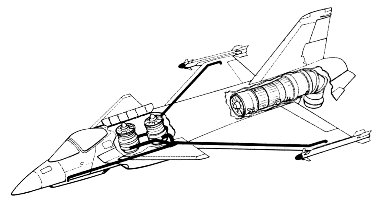 Convair Model 200A 3-Nozzle Lifting RCS 331